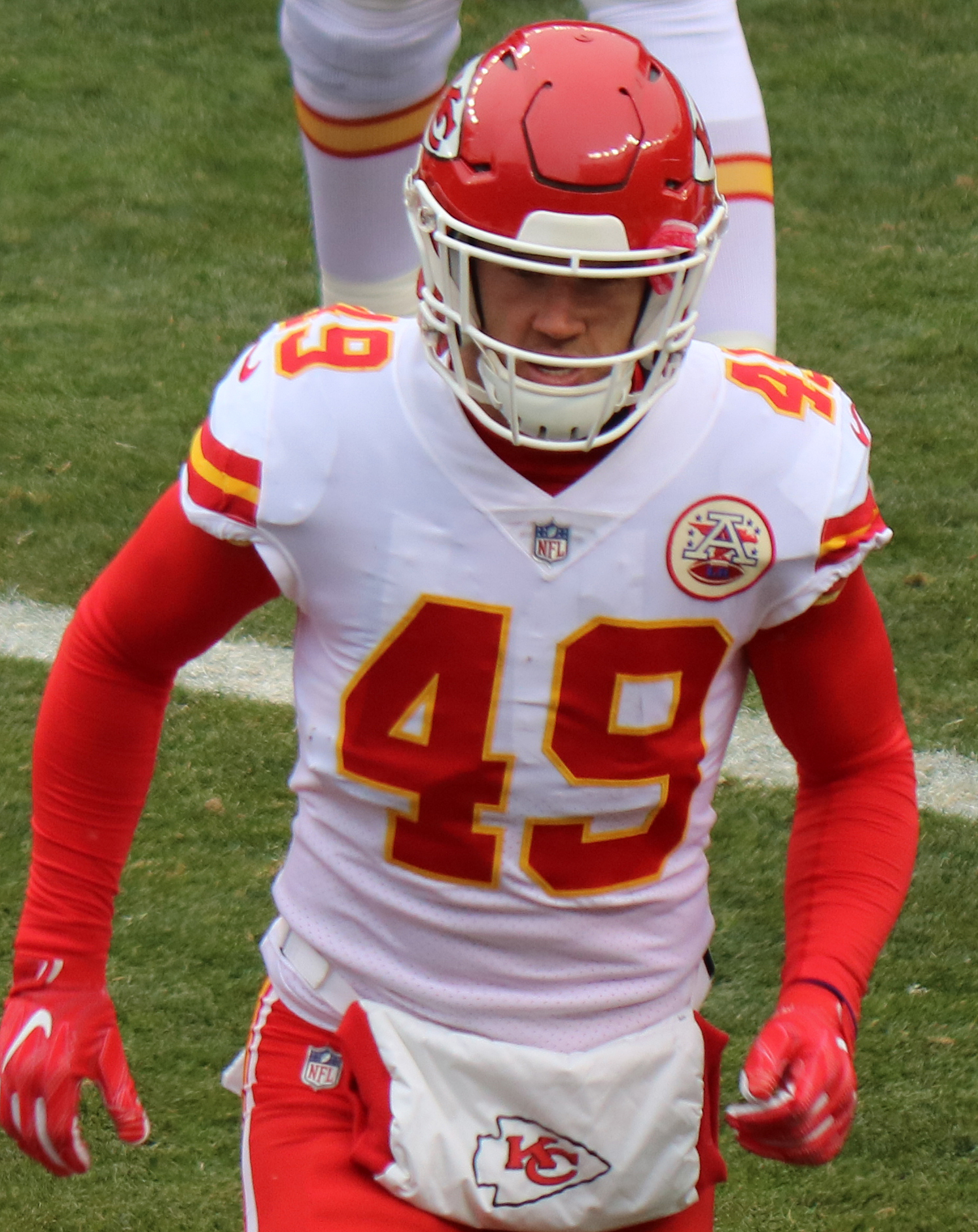 Daniel Sorensen, a player on the National Football League.